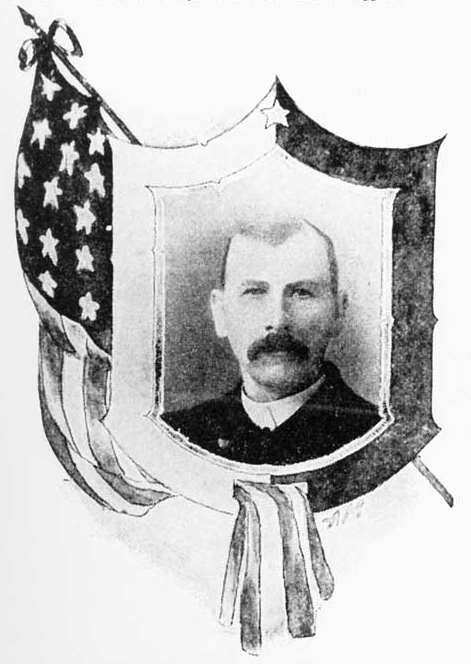 Halftone reproduction of a photograph of Medal of Honor recipient Ordinary Seaman Bartholomew Diggins, published in "Deeds of Valor", Volume II, page 66, by the Perrien-Keydel Company, Detroit, 1907.